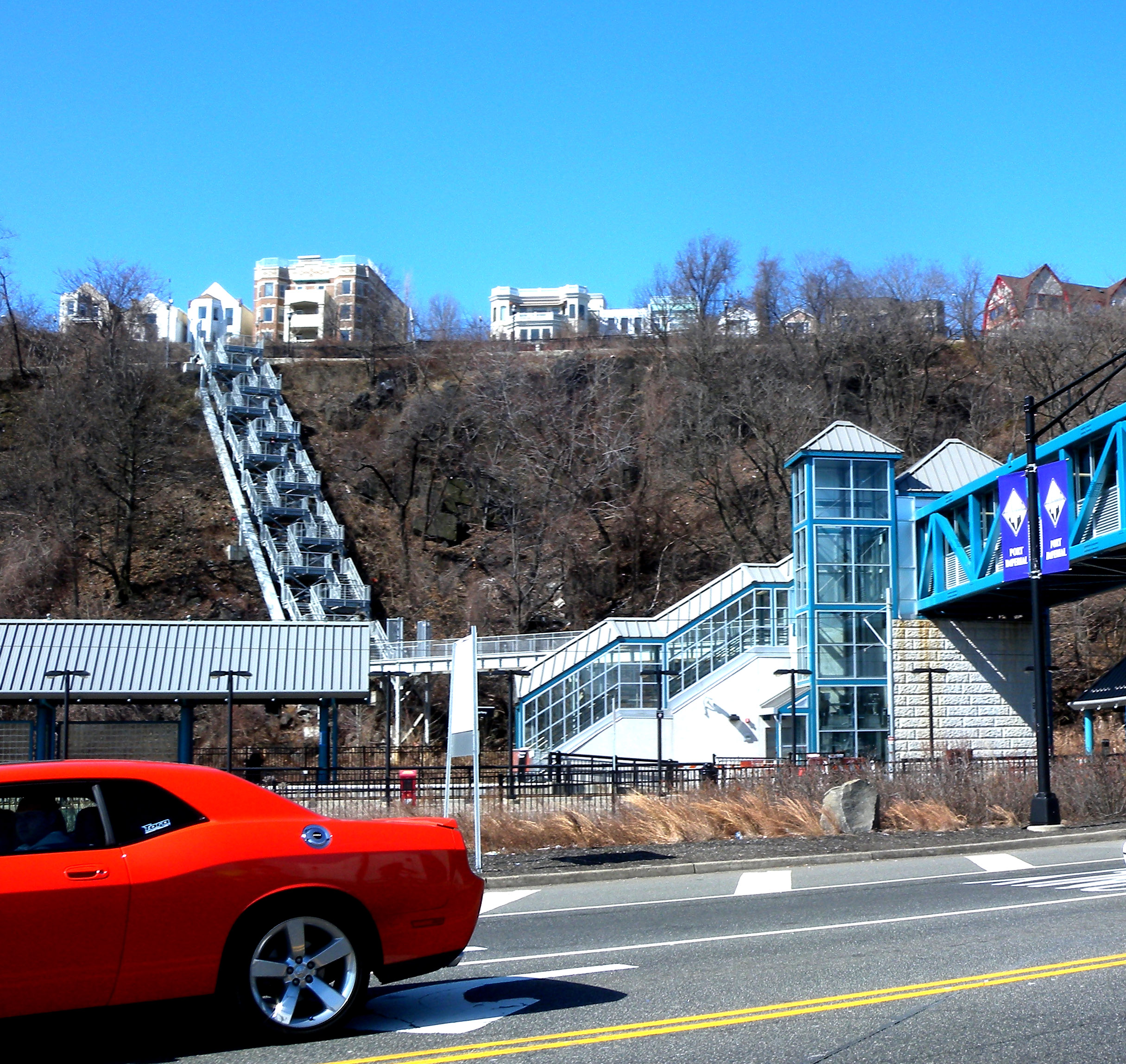 Looking west across River Road at Port Imperial station on a sunny late afternoon.